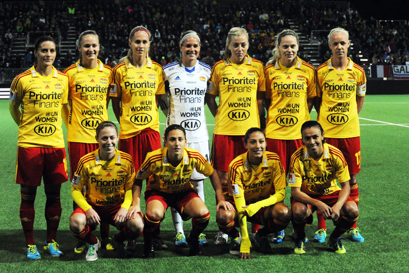 Tyresö FF squad before a Champions League match against Paris-Saint-Germain, October 2013. Back row (L-R): Ali Krieger, Caroline Graham Hansen, Line Røddik Hansen, Ashlyn Harris, Linda Sembrant, Lisa Dahlkvist, Caroline Seger. Front row (L-R): Meghan Klingenberg, Verónica Boquete, Christen Press, Marta